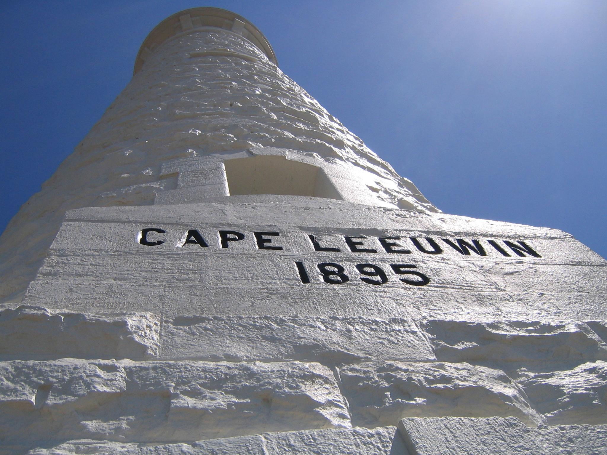 Lighthouse, Cape Leeuwin, Western Australia.